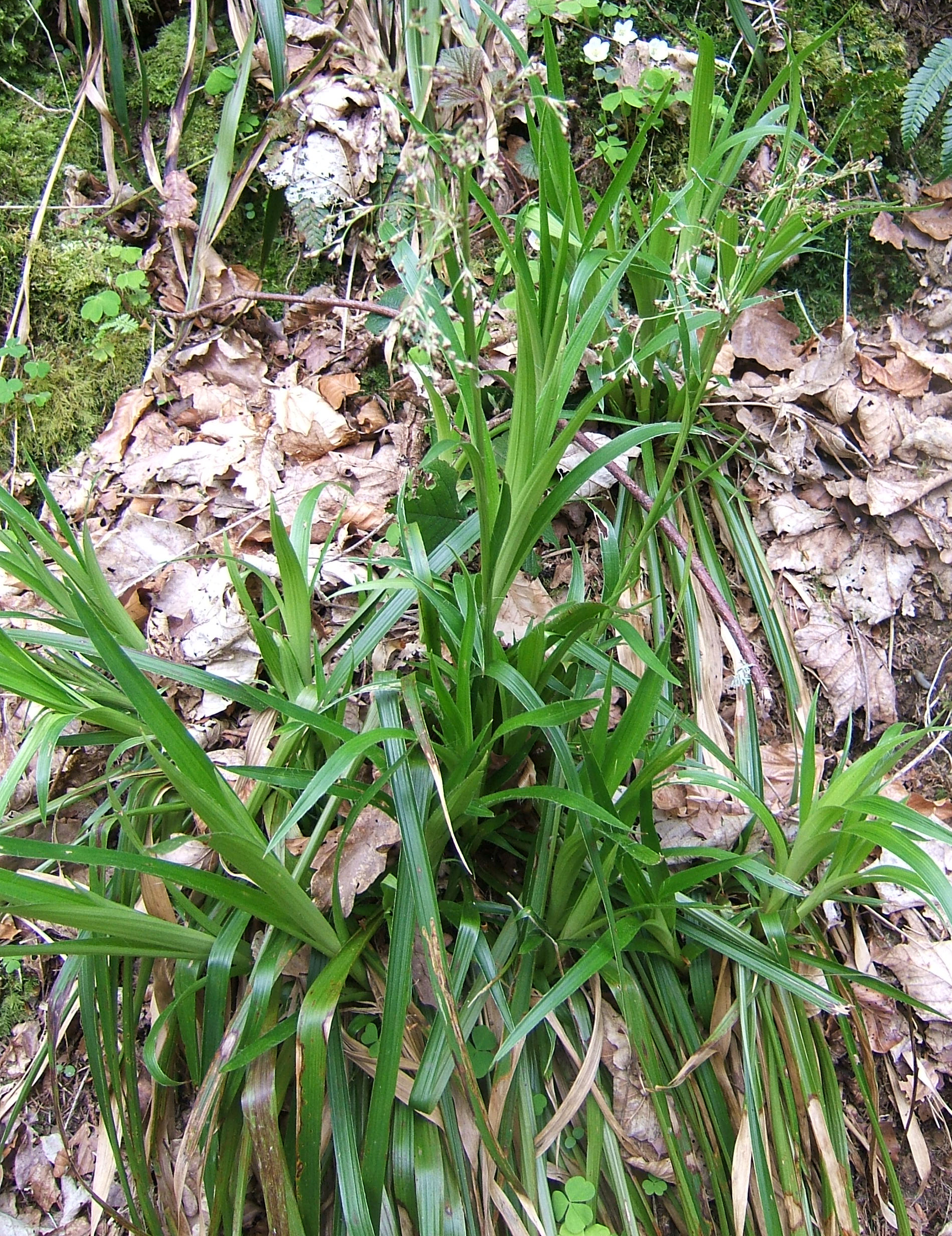 Luzula sylvatica, Allenbanks, Northumberland, UK; 04 May 2006